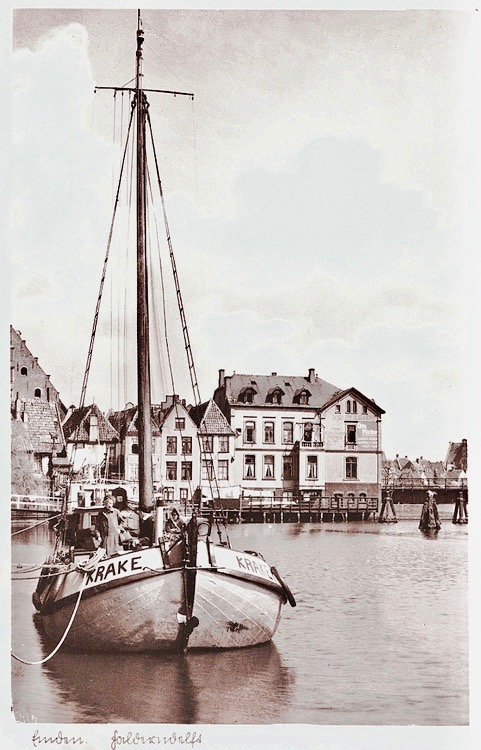 Historic auxiliary powered vessel Krake (= octopus) with identification number ZK 14 (= Zoutkamp harbour, The Netherlands) and DGIC as its call signal in the harbour of Emden, East Frisia, Germany. This sailing ship (Dutch barge, type Blazer) originally made of oak wood is a special construction for cargo and fishery in the shallow waters of the Wadden Sea. Its flat bottom enables the ship during tidal flats to rest on the sea ground. The picture from a contemporary printed postcard was made between 1934 and 1938. During this time the Krake was owned by the German author and progressive pedagogue Martin Luserke (1880–1968) who used the ship as his floating poet's workshop. In many harbours of The Netherlands, Germany, Denmark, South Norway and South Sweden mostly younger people visited the ship for his readings or taletelling and some even went with him and his son Dieter Luserke (1918–2005) on cruise. One of the later prominent passengers was Beate Uhse (1919–2001) who attended Schule am Meer on the German island Juist which Martin Luserke had founded in 1925.